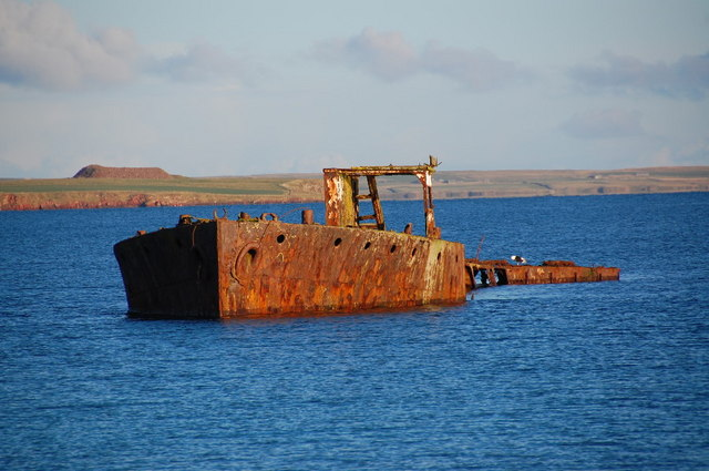 Wreck of the tanker Juniata, Inganess Bay Built as SPRUCOL Launch Date: 4.7.1917 Date of completion: 1.1918 17.4.40 Wrecked